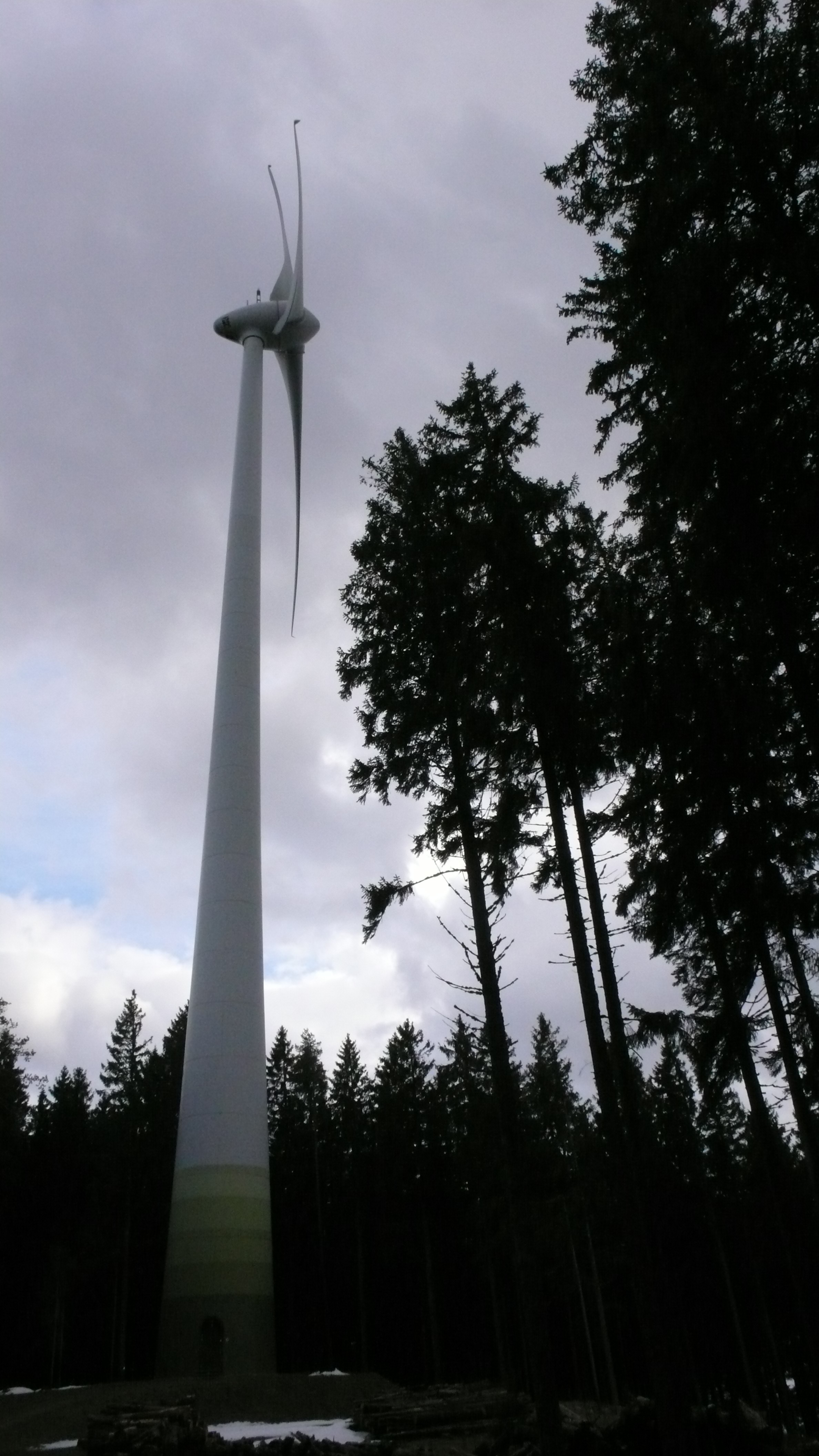 Wind turbine, in Schonach